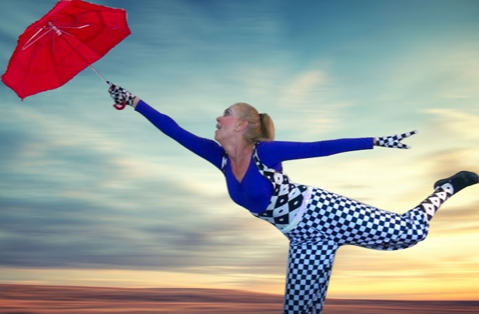 The Art of Mime